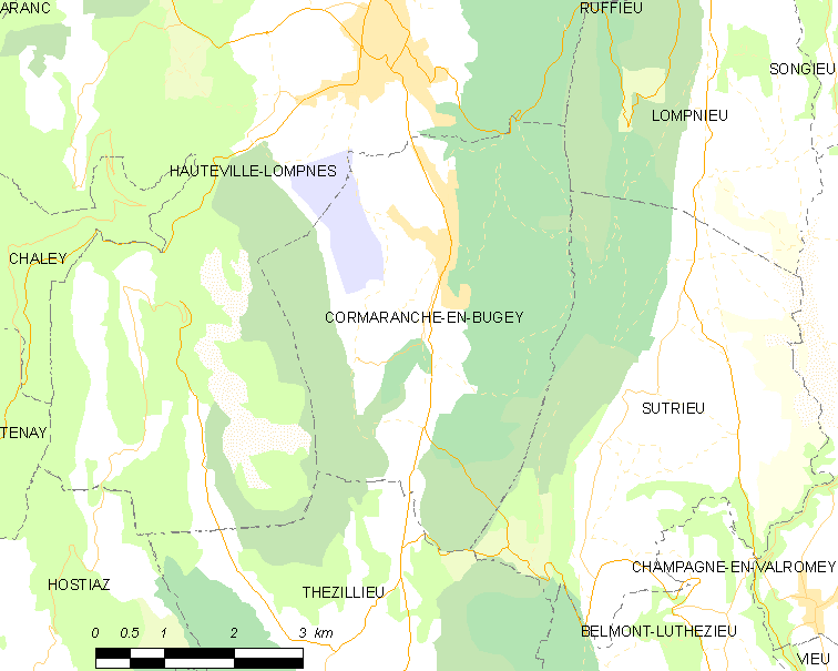 Map of French commune: Cormaranche-en-Bugey Map commune FR insee code 01122.png